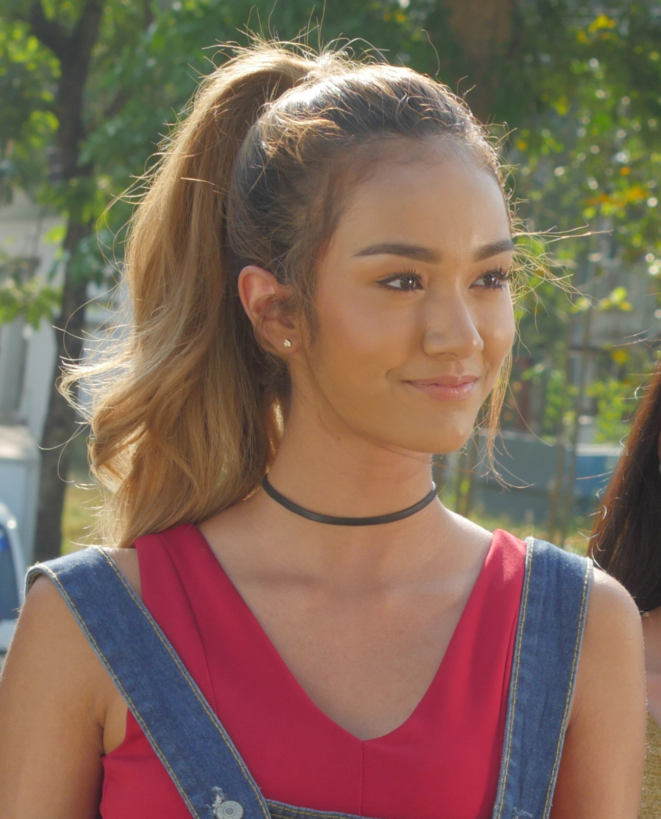 May Myat Noe, Miss Asia Pacific (2014) မြန်မာဘာသာ: အလှမယ် မေမြတ်နိုး